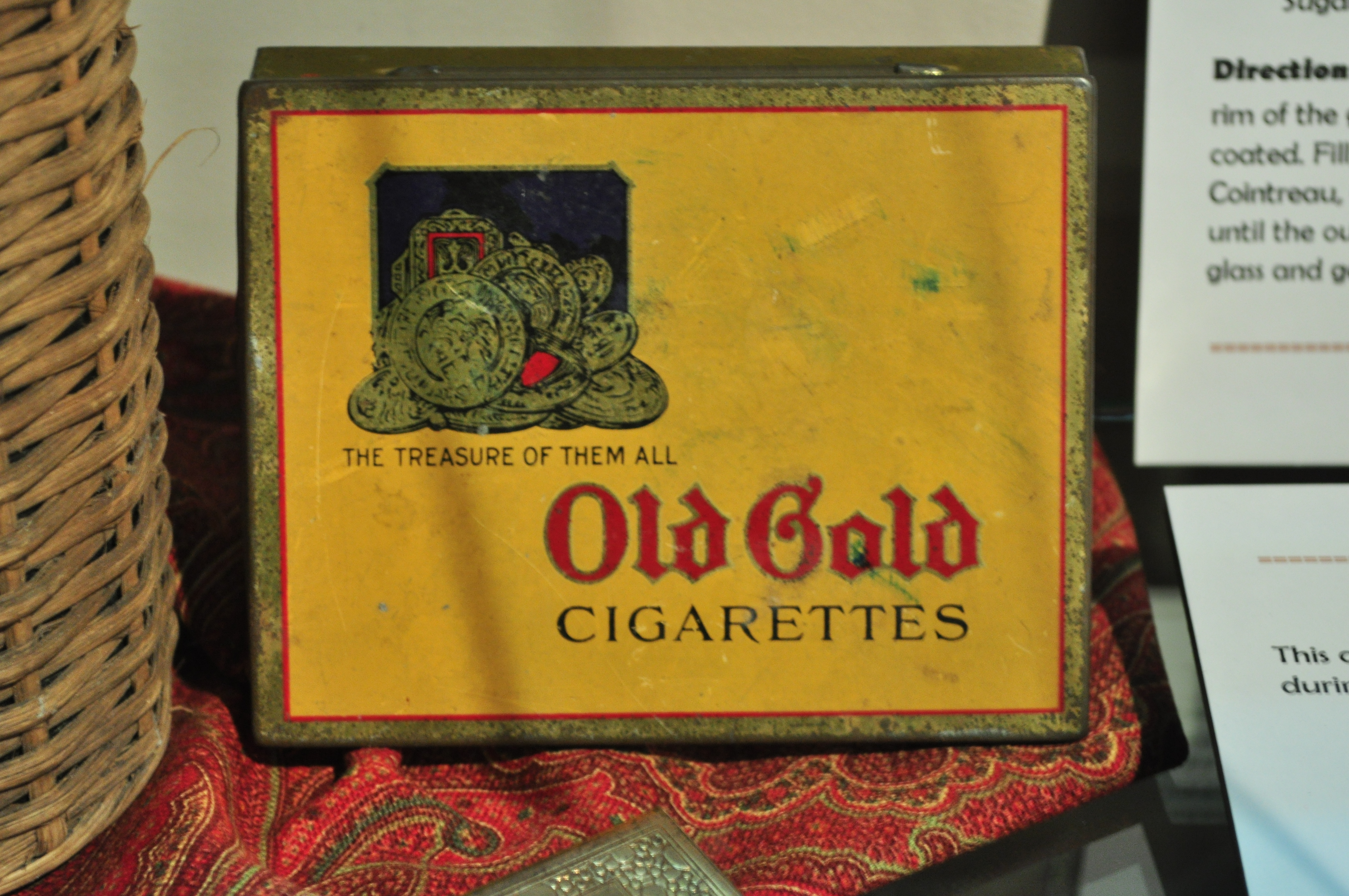 Old Gold cigarette case, 1920s or 1930s. Photo taken at "Stills in the Hills", a 2012 exhibit about bootlegging during the Prohibition era in the United States, at White River Valley Museum, Auburn, Washington.